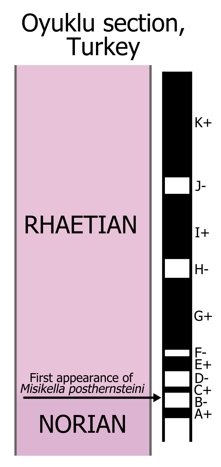 The magnetostratigraphic sequence of the Norian-Rhaetian Oyuklu section in Turkey. Based off of a magnetostratigraphy published originally by Gallet et al. (2007). Normal-polarity sections are in black and labelled with positive signs (G+, I+, etc). Reverse-polarity sections are in white and labelled with negative signs (B-, D-, etc). The level of the first appearance of Misikella posthernsteini (the base of the Rhaetian) in zone B- is labelled. No precise dates have been provided due to the unresolved nature of Late Triassic chronology and magnetostratigraphic correlations.